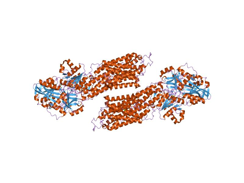 Cartoon representation of the molecular structure of protein registered with 1vfp code.